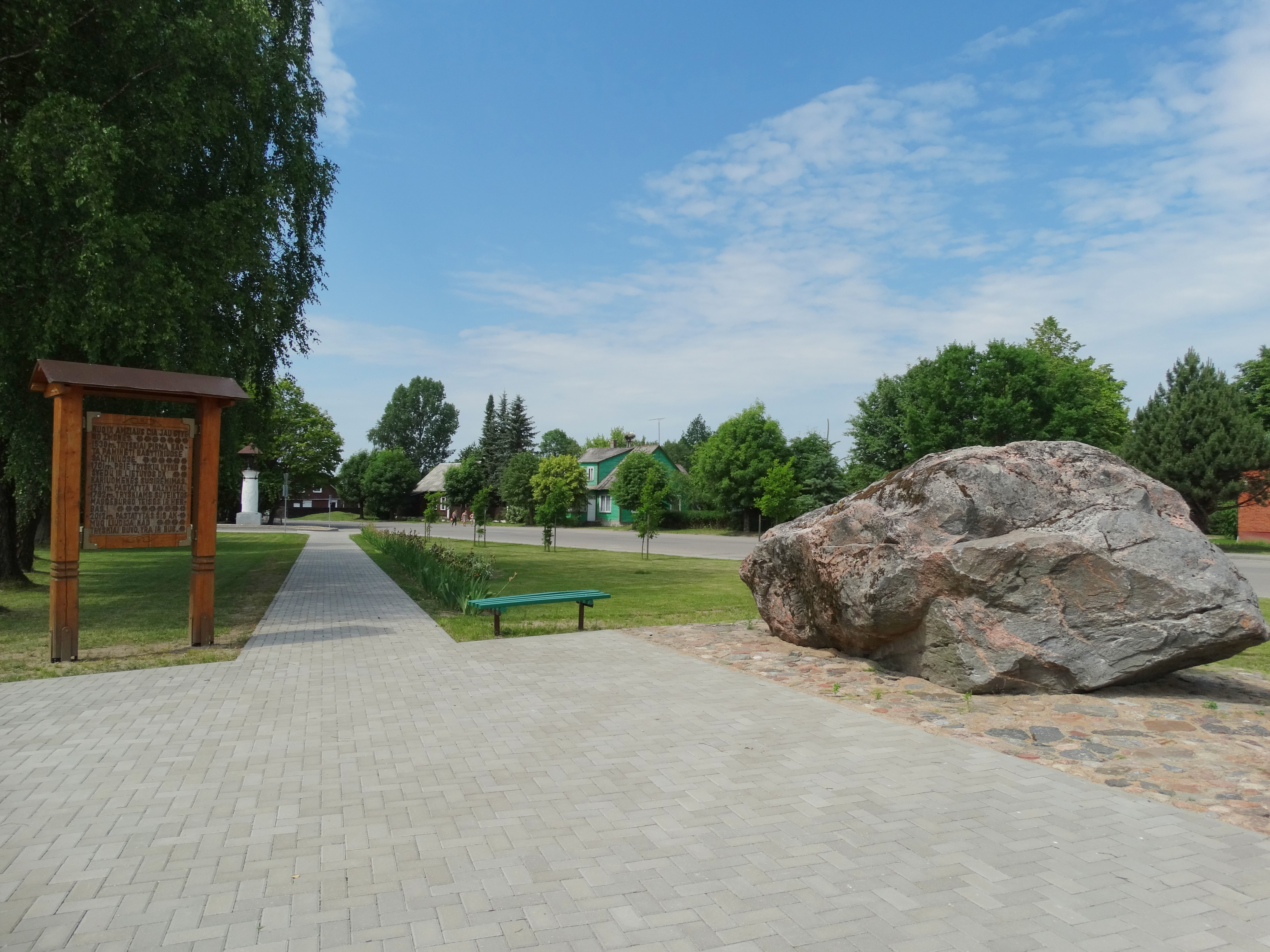 Stone, Tryškiai, Telšiai district, Lithuania